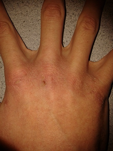 An image of a hand affected by dry skin.